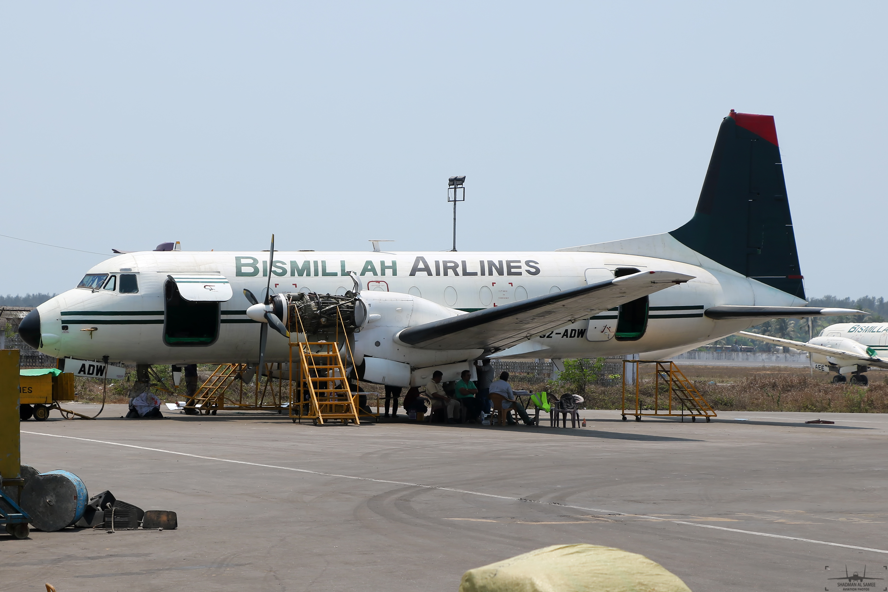 VGCB 2018: Ever since S2-AAX got stranded at VGJR due to a collapsed landing gear, the airline had no active aircrafts to continue its operations; hence S2-ADW is in the process of being activated.